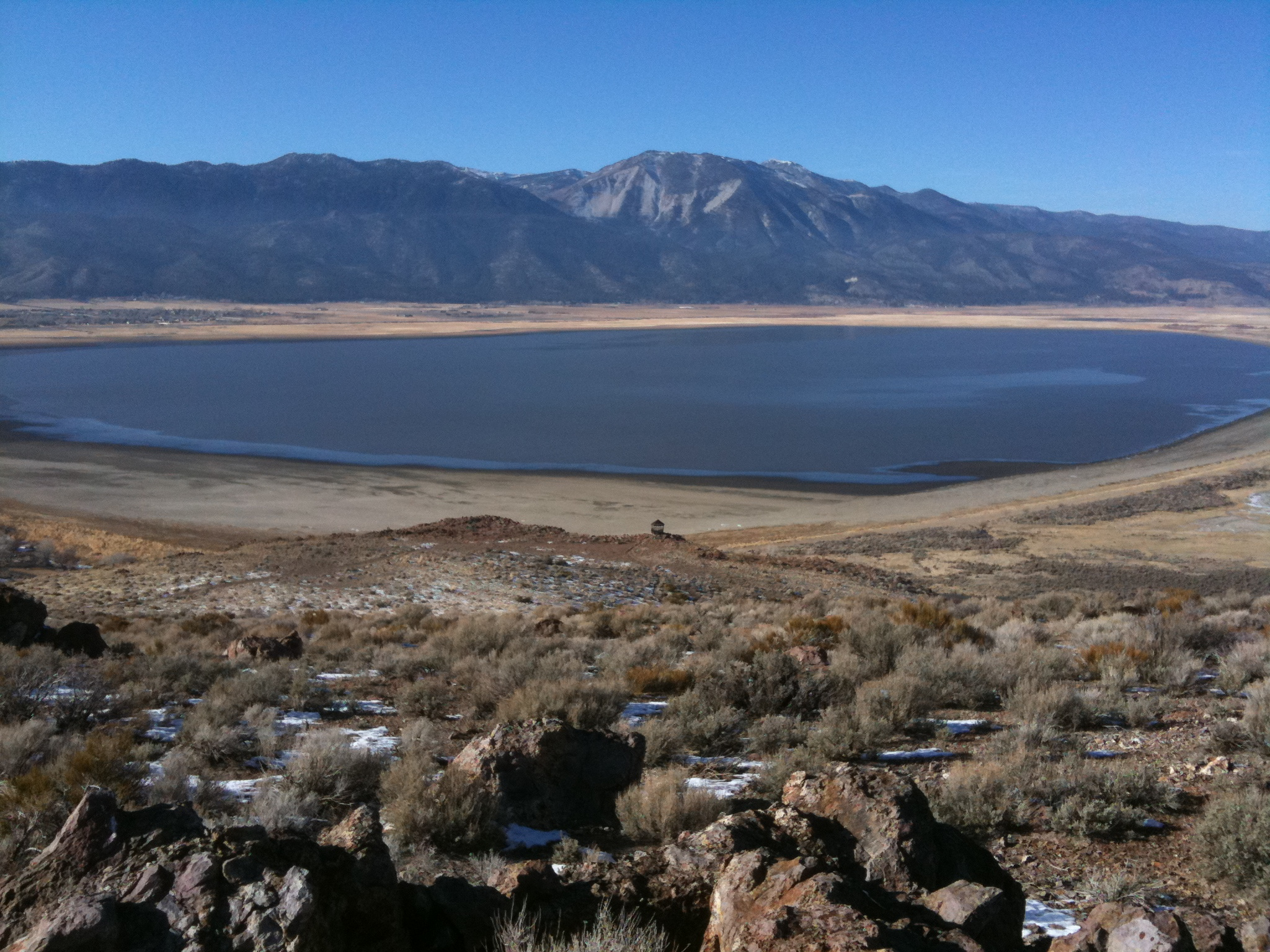 Washoe Lake — with Slide Mt. and the Carson Range in the background. Most of the foreground is within Washoe Lake State Park.